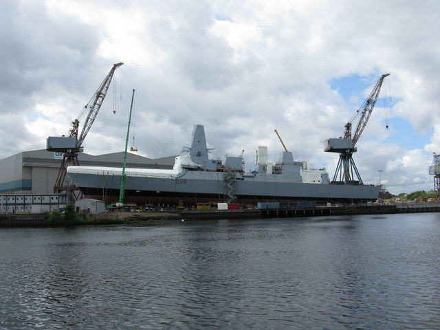 Destroyer 'Defender' under construction Type 45 destroyer Defender under construction at BVT Surface Fleet on the River Clyde.